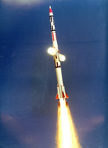 Athena-H sounding rocket